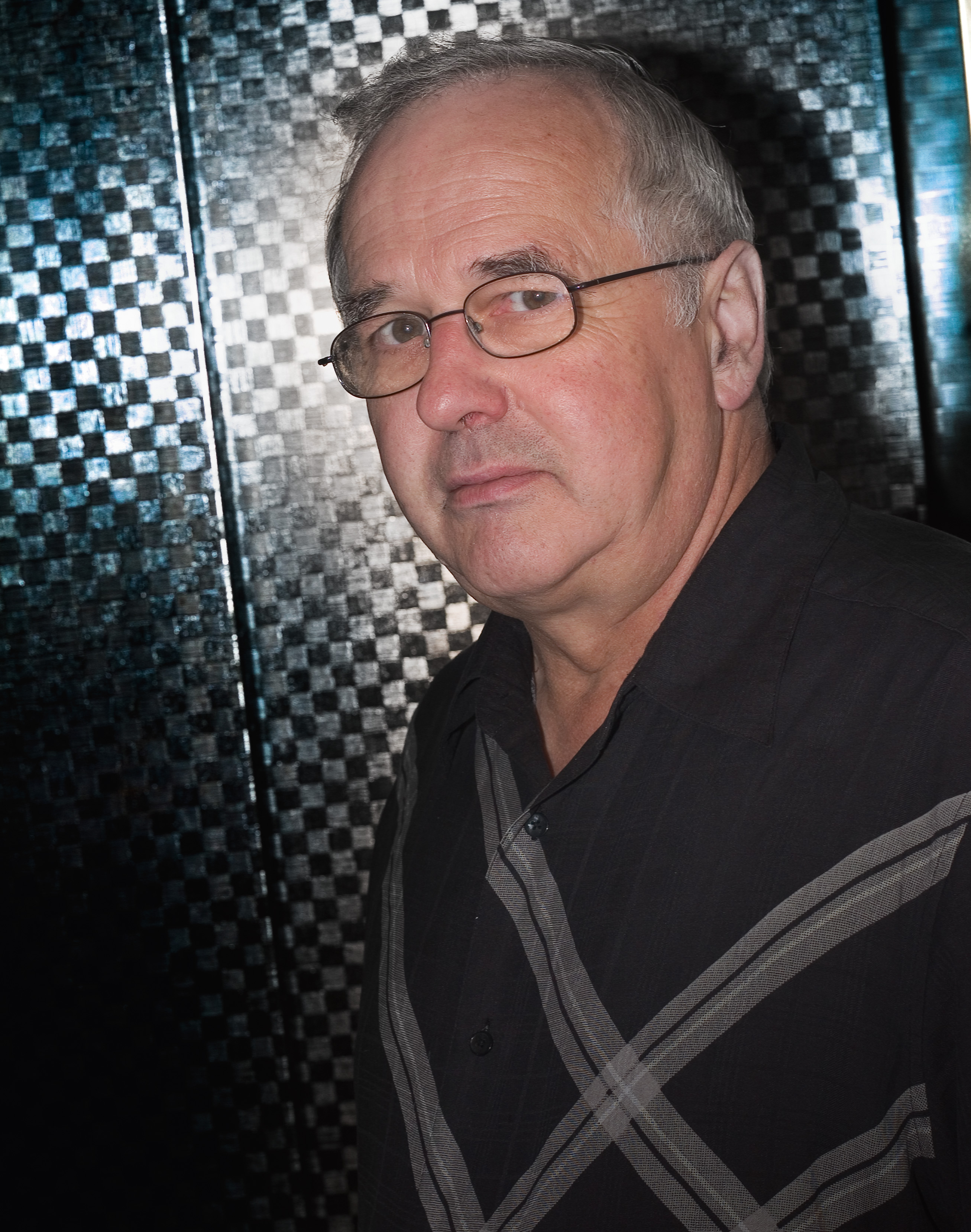 George Sawatzky, Spinoza laureate 1996. Photo Ivar Pel (NWO)